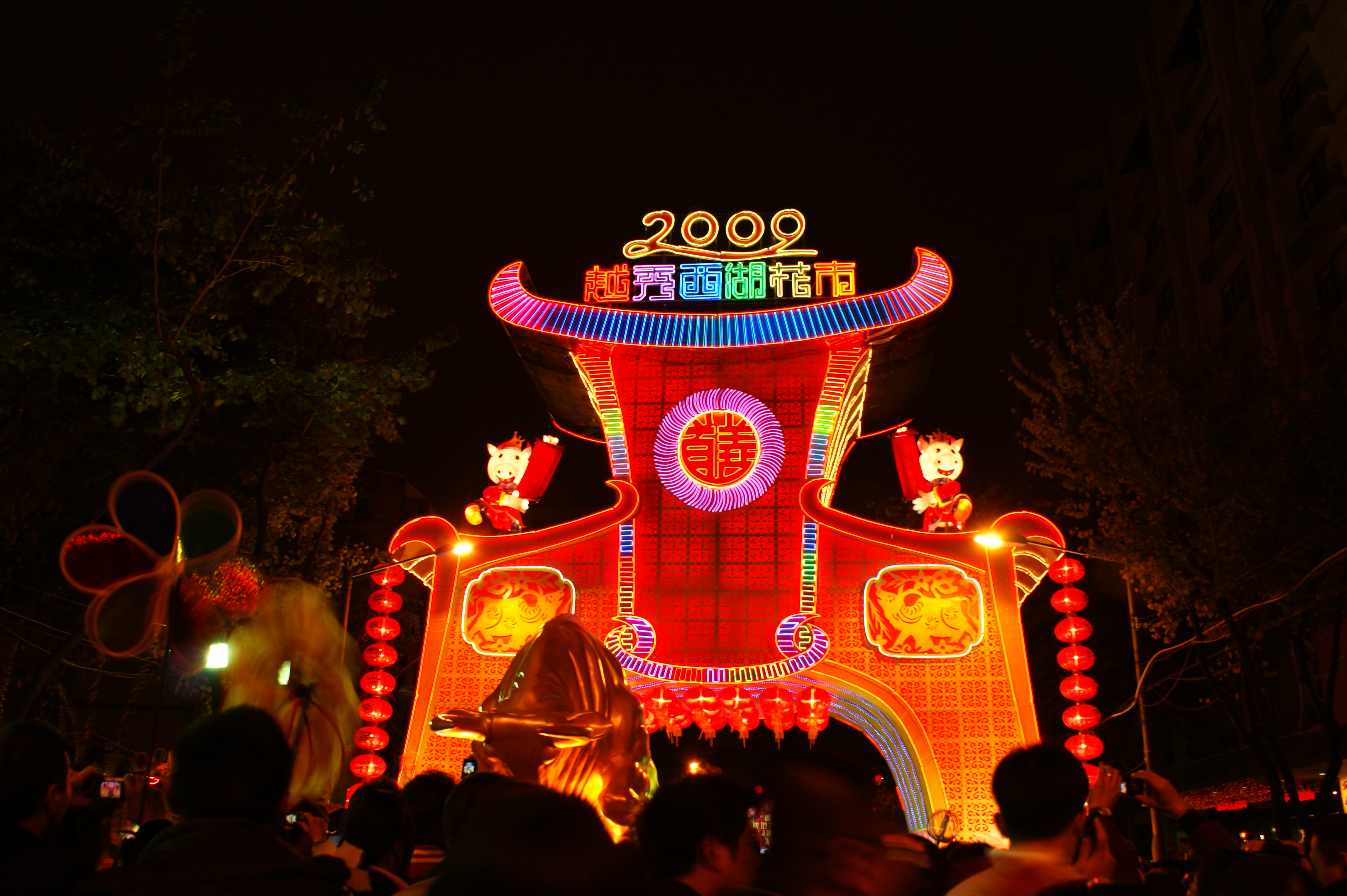 2009 Yuexiu WestLake Flower Market